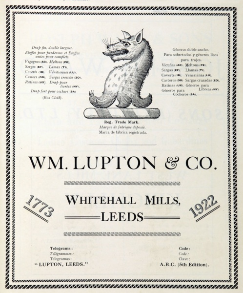 1922 advertisement for William Lupton and Co. Est. 1773 from 7 January 1922 Yorkshire Post - A 150 YEAR-OLD FIRM